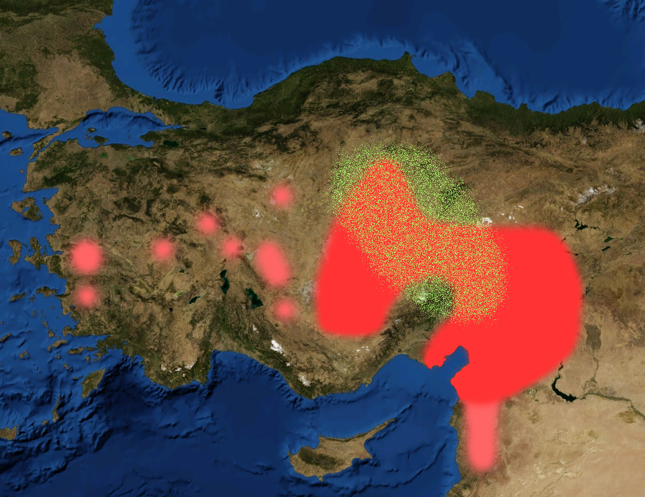 region of the Luwian language; red: Luwian coreland with many findings of inscriptions, light red: only sporadic findings of inscriptions. Data extracted from the book The Luwians (H. Craig Melchert, Brill 2003)